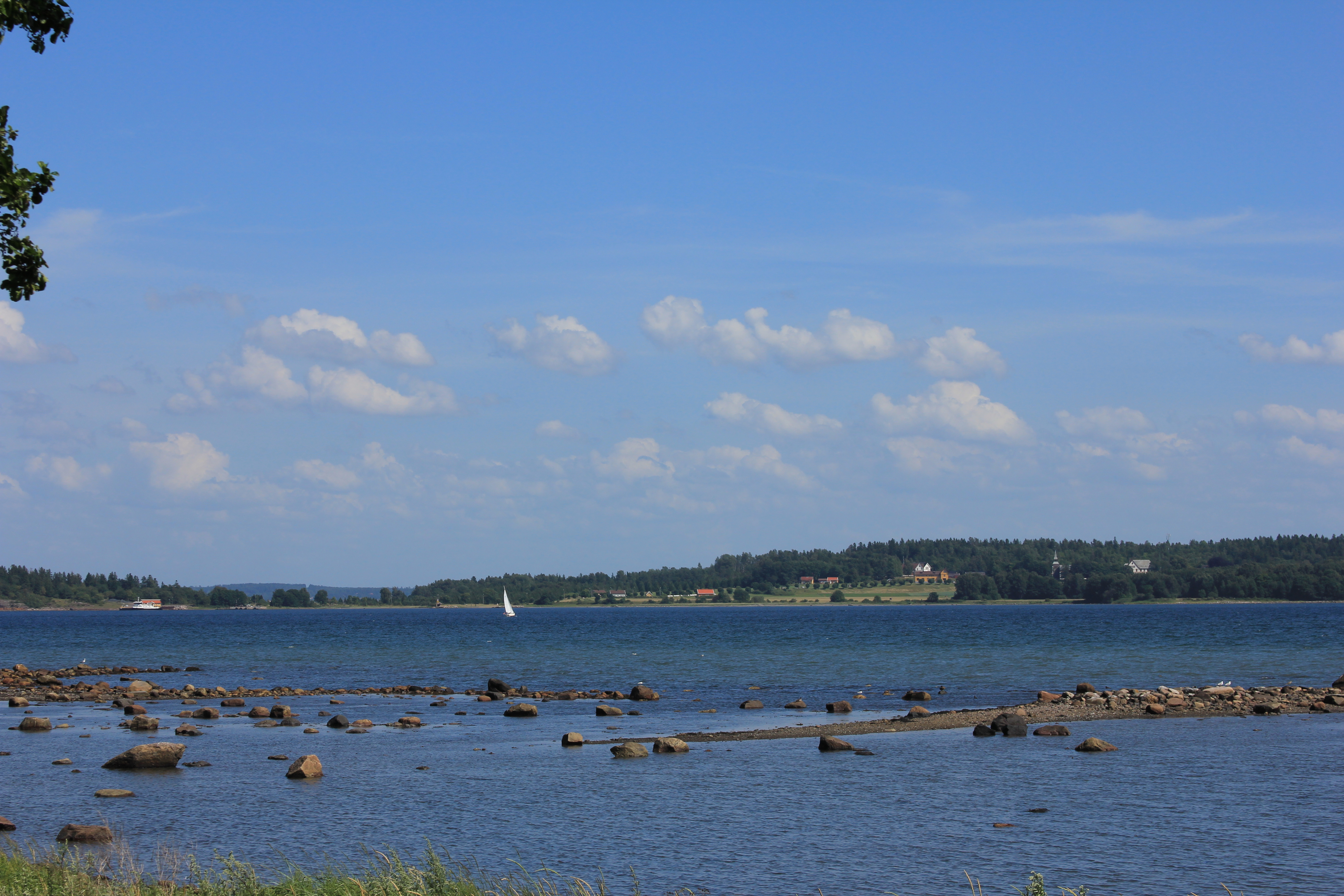 Towards Bastøy island in Horten, Norway